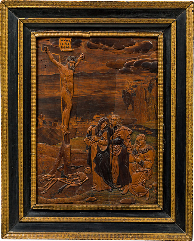 Cheb relief intarsia. Relief "Crucifixion of Christ" Eger, mid 17th century relief inlay; framed; 44.3 × 32.2 cm (without frame)